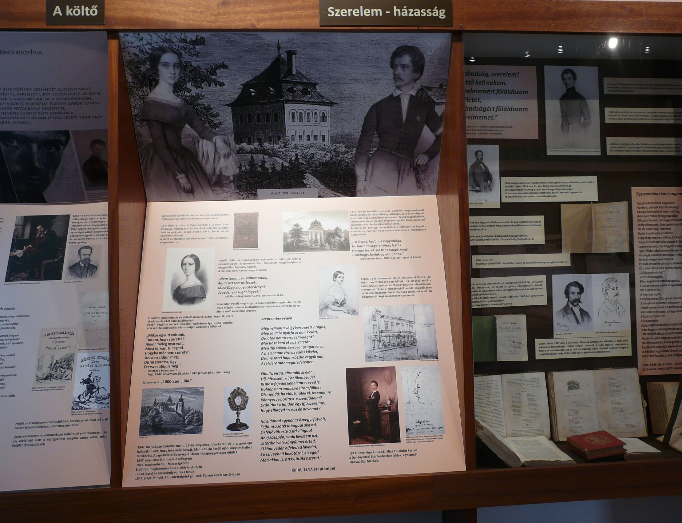 Detail of the exhibition (Petőfi Memorial House in Kiskunfélegyháza)